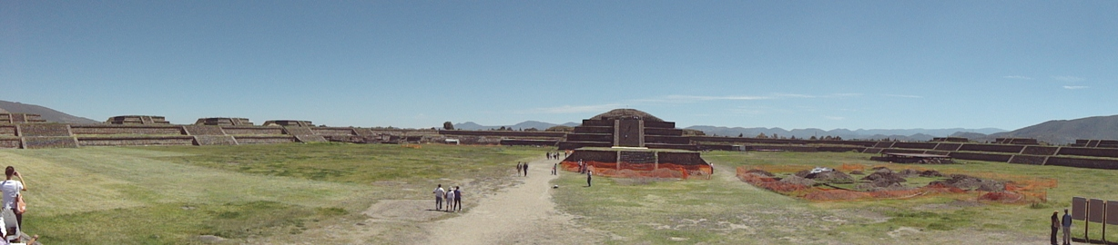 Ciudadela in Teotihuacan